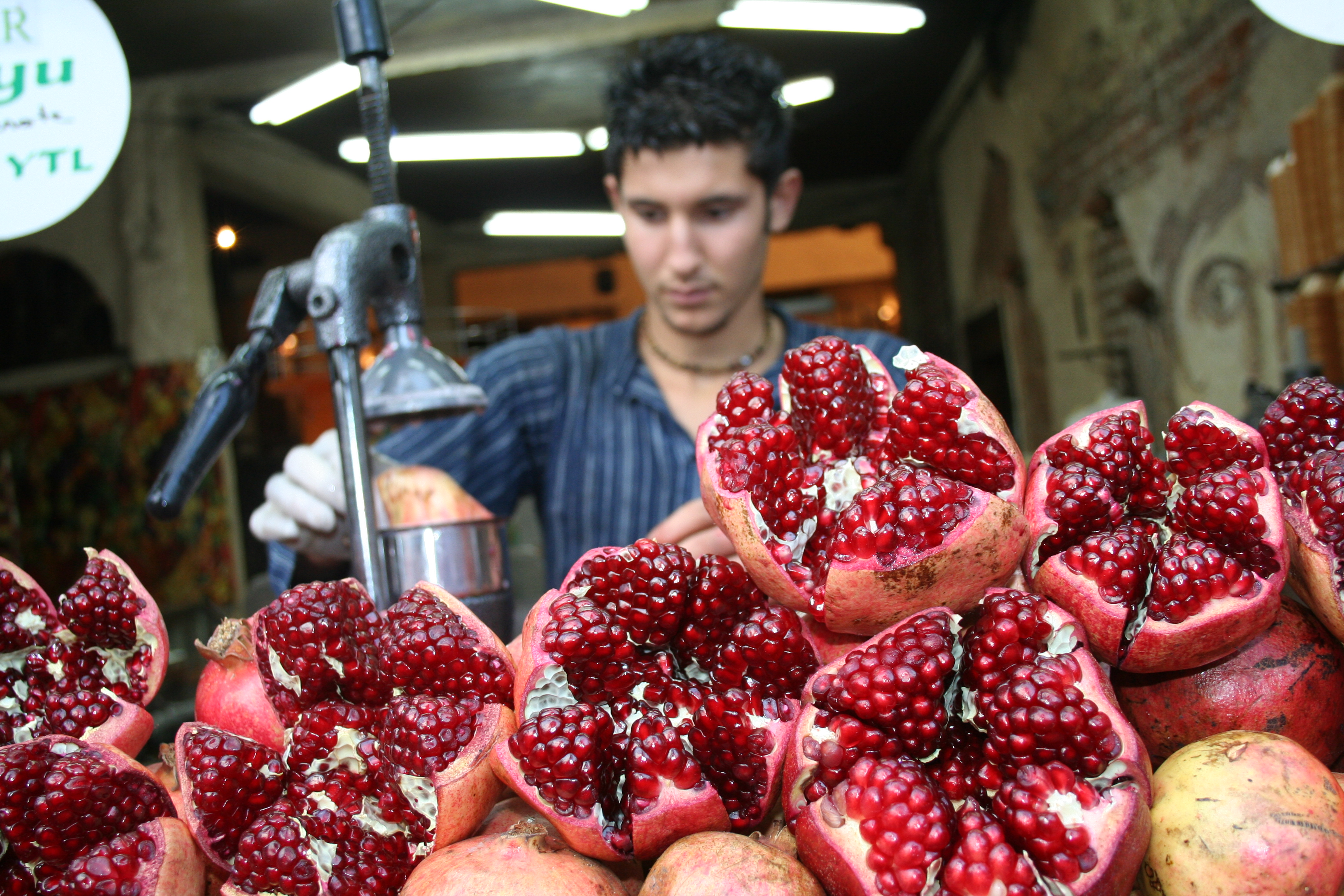 A worker preparing fresh pomegranate juice from these pomegranate fruit. Photo taken at a market in Istanbul, Turkey.